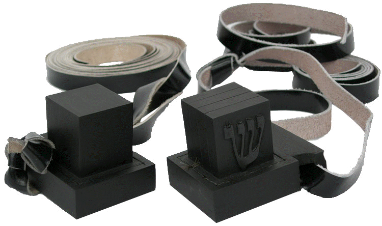 Tefillin